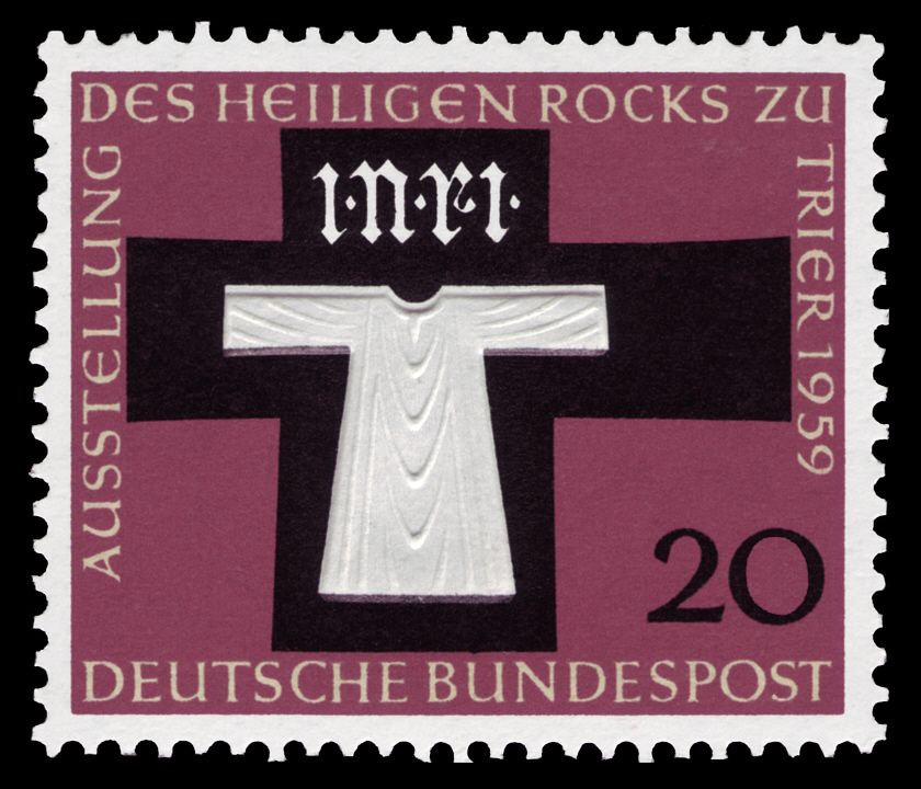 Exhibition of the Seamless robe of Jesus from the Cathedral of St. Peter (Trier) Graphics by Göhlert Ausgabepreis: 20 Pfennig First Day of Issue / Erstausgabetag: 18. Juli 1959 Michel-Katalog-Nr: 313